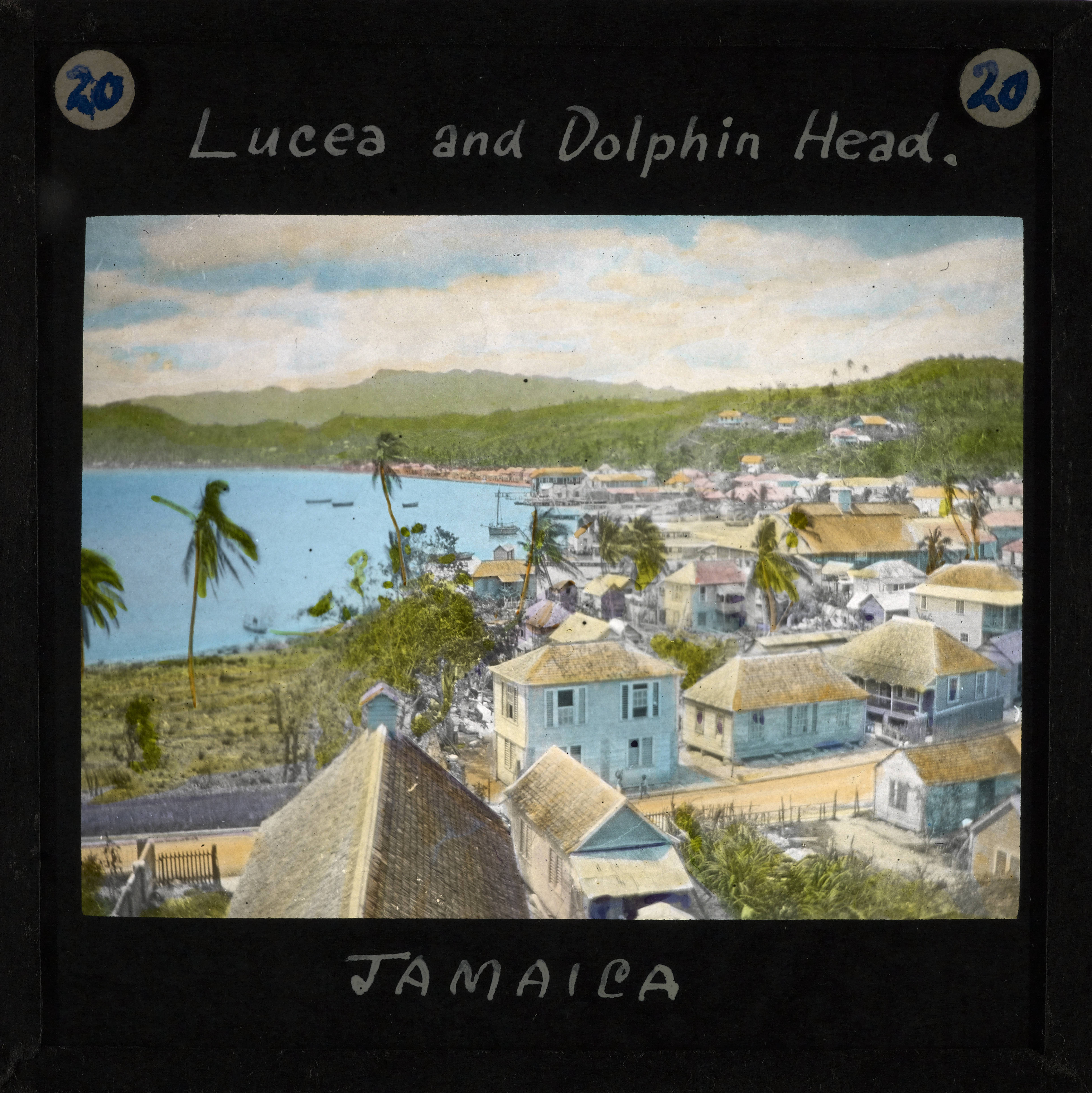 "Lucea and Dolphin Head, Jamaica", early 20th century Photograph of Lucea taken from an elevated view. Rooftops of the town can be seen stretching out across a bay. In the background, to the southwest of the town Dolphin Head, the most westerly peak of the Jamaican mountain system can be seen. It was in Lucea in 1827 that the Scottish Missionary Society established its second station. Photographer: Unknown Filename: imp-cswc-GB-237-CSWC47-LS12-020.tif Coverage date: after 1900 Part of collection: International Mission Photography Archive, ca.1860-ca.1960 Type: images Part of subcollection: Photographs from the Centre for the Study of World Christianity, University of Edinburgh, U.K., ca.1900-ca.1940s Repository name: Centre for the Study of World Christianity Archival file: impaunpub_Volume7/1353.url Geographic subject (city or populated place): Lucea Repository address: The University of Edinburgh School of Divinity, New College, Mound Place, Edinburgh EH1 2LX, United Kingdom Geographic subject (country): Jamaica Format (aacr2): 1 lantern slide : 8 x 8 cm. Geographic subject (continent): North and Central America Rights: Contact the repository for details. Part of series: The Jamaican Church in the Bush LS12 Repository Subject (lcsh Keyword): Human settlements; Missionaries Date created: after 1900 Publisher (of the digital version): University of Southern California. Libraries Subject (aat genre): cityscapes Format (aat): lantern slides Legacy record ID: impa-m68291 Access conditions: File: GB 237 CSWC47/LS12/20